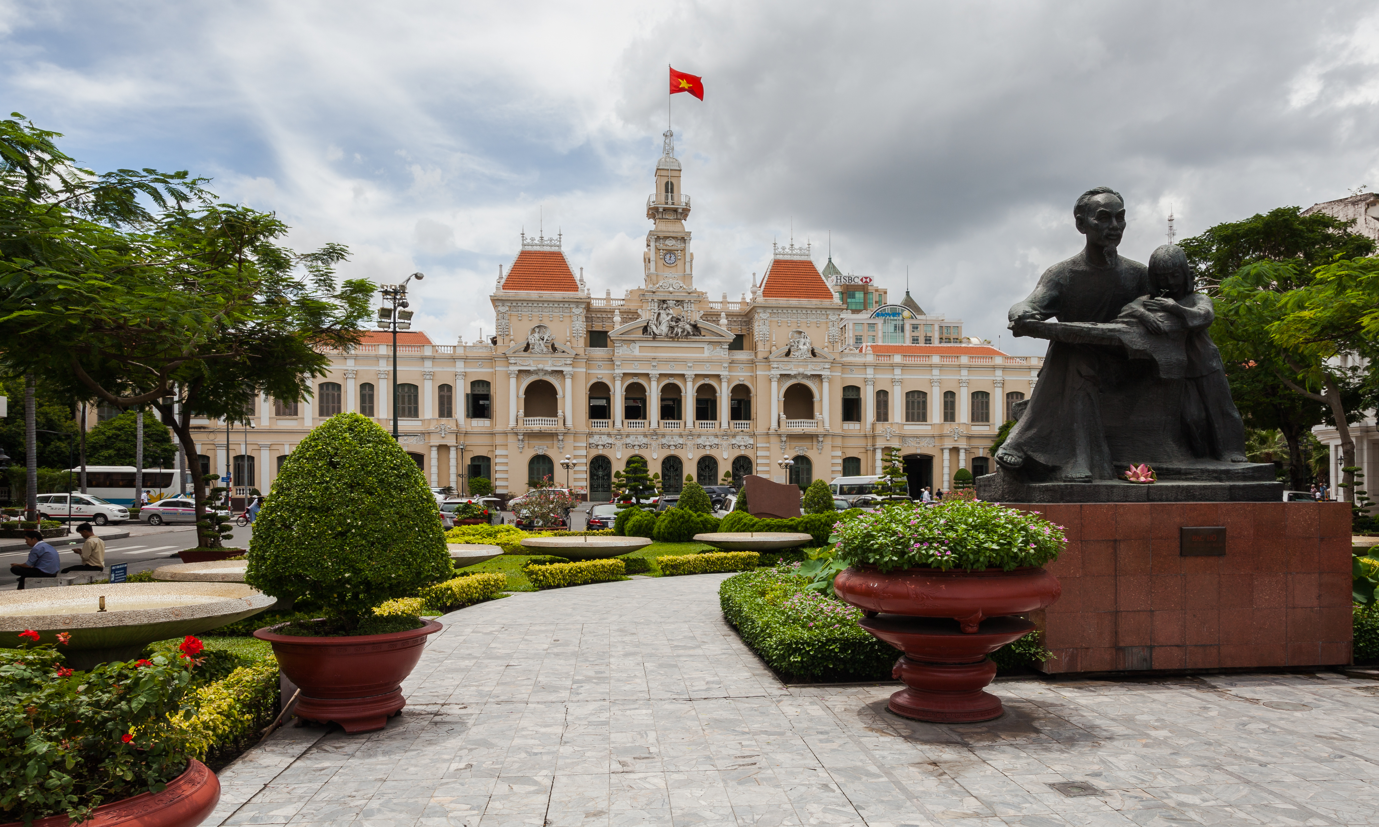 City hall, Ho Chi Minh City, Vietnam.